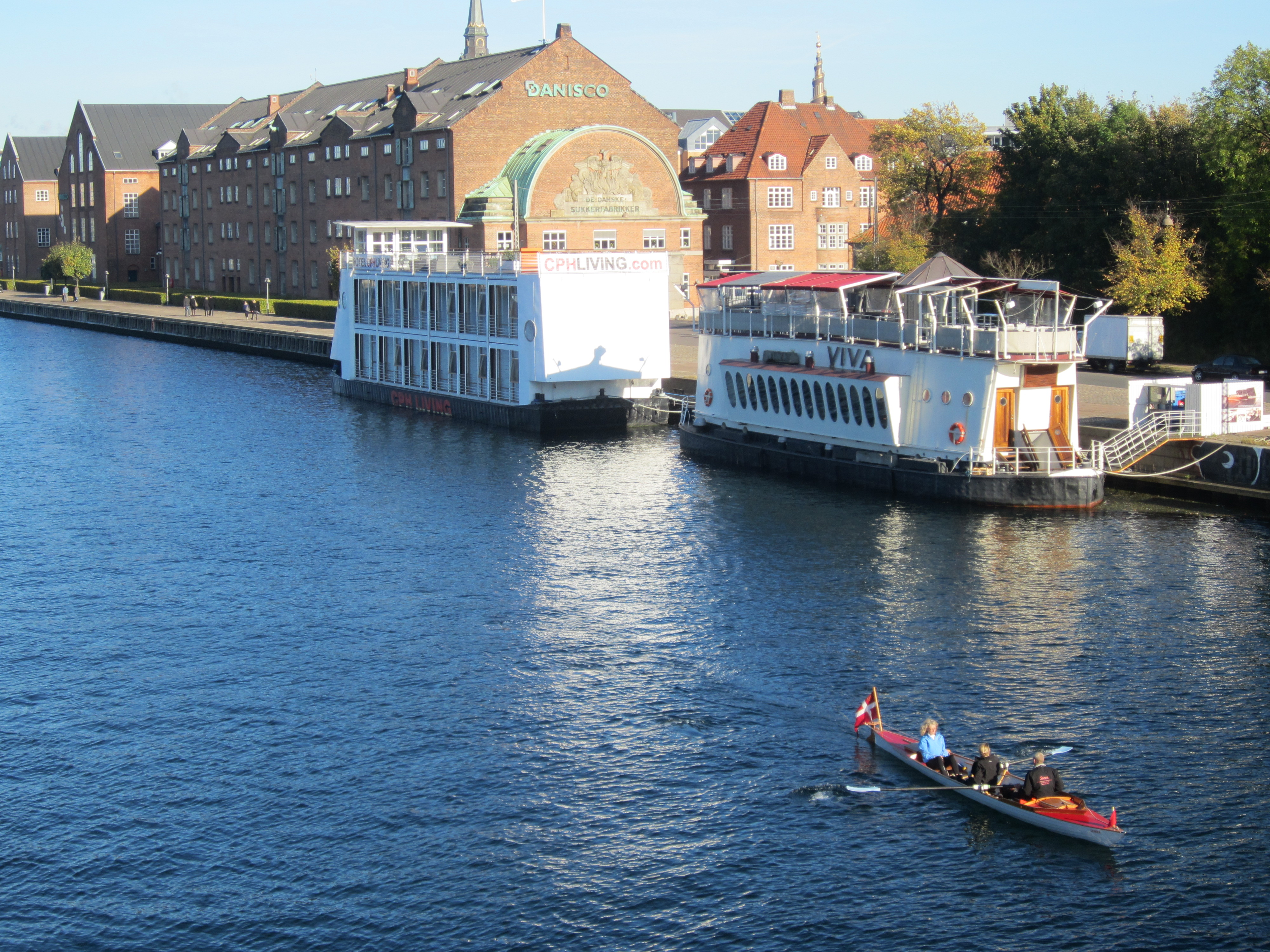 Restaunt and hotel ship at Applebys Plads in Copenhagen, Denmark